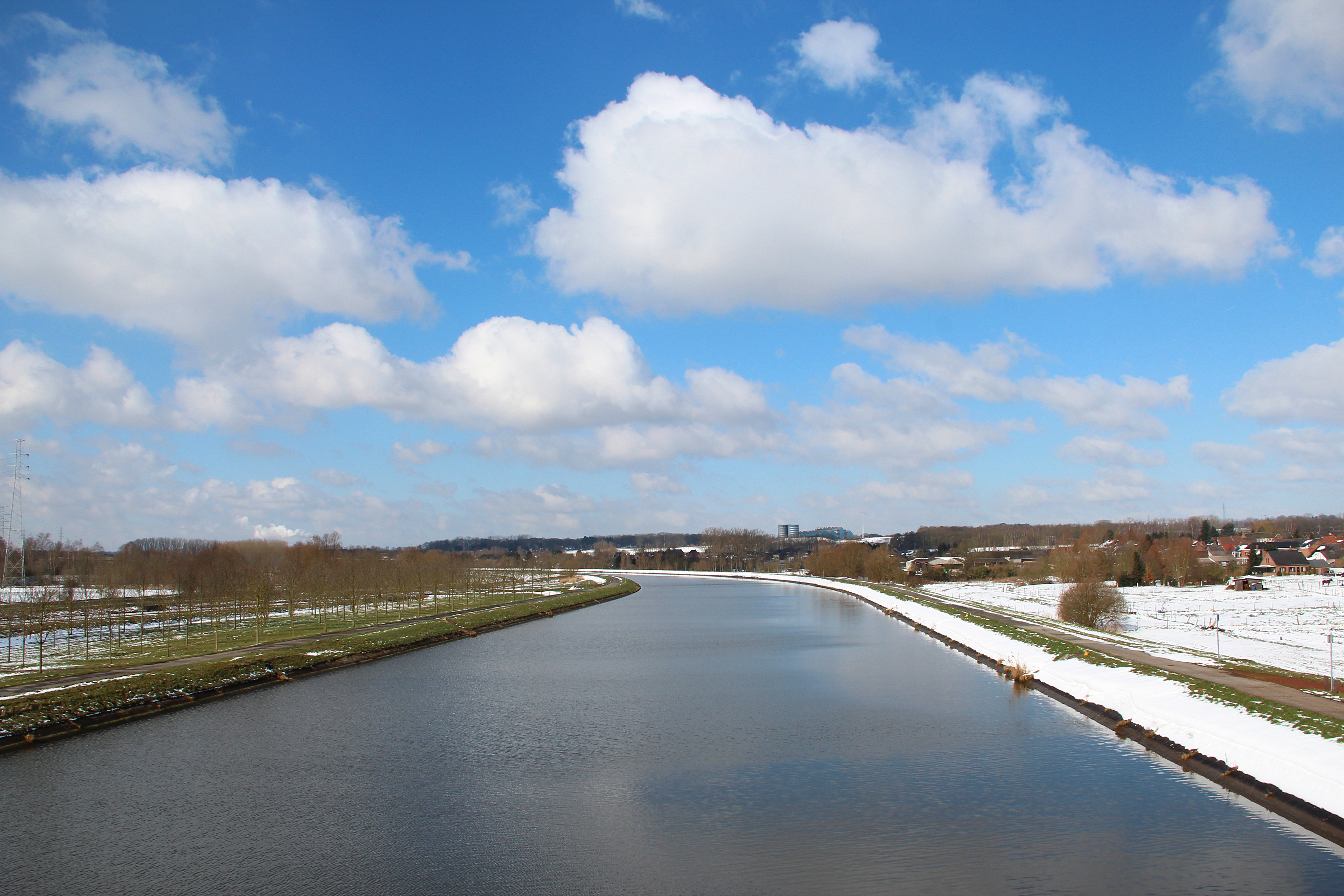 Havré (Belgium), new section of the Canal du Centre downstream of the drawbridge of the chausée du Roeulx.